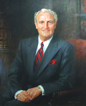 Vernon Deloss Walker, founder of Walker + Associates, Inc.